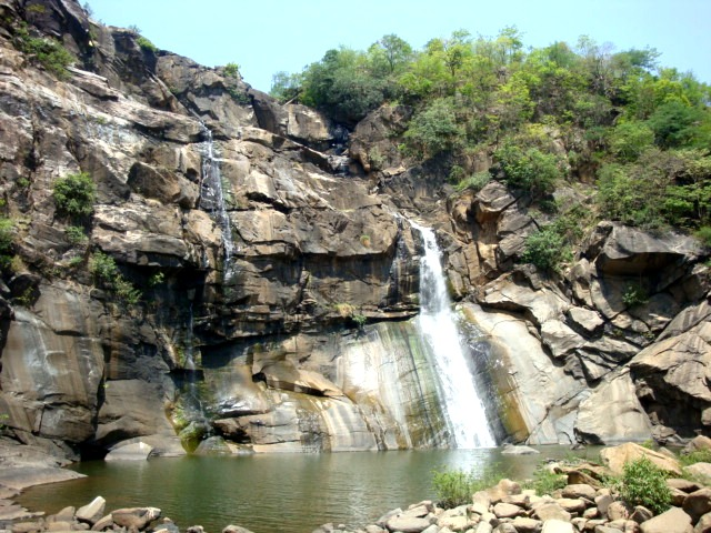 One of Tourism place in Ranchi